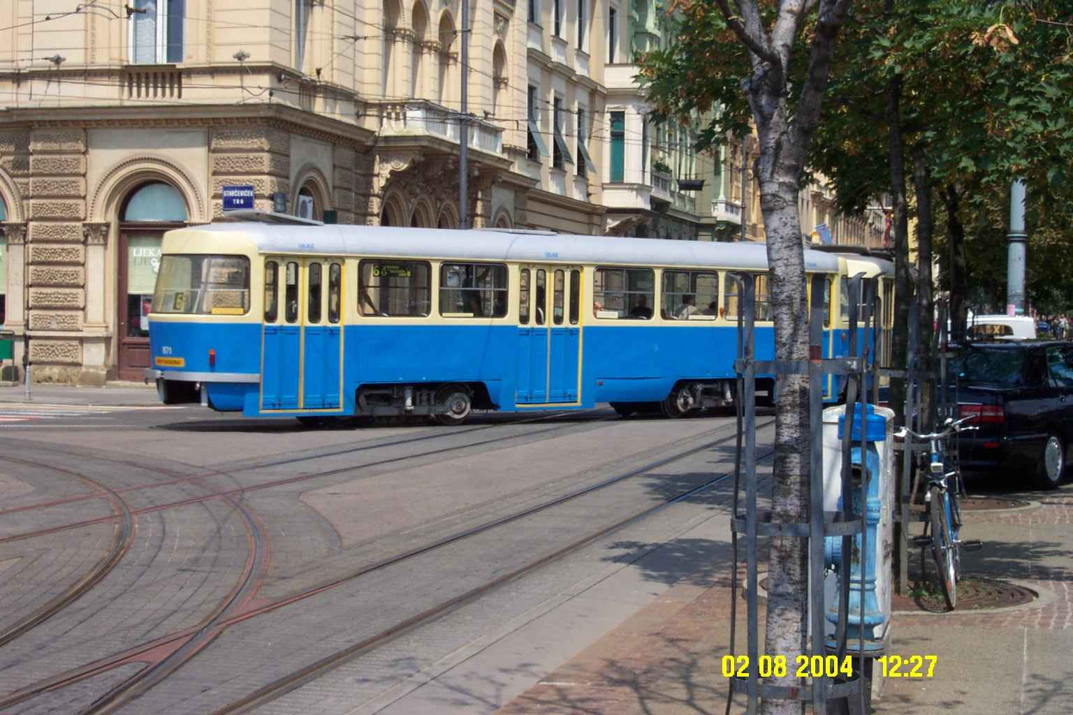 Trailer car type Tatra B4 in Zagreb, HRhelp